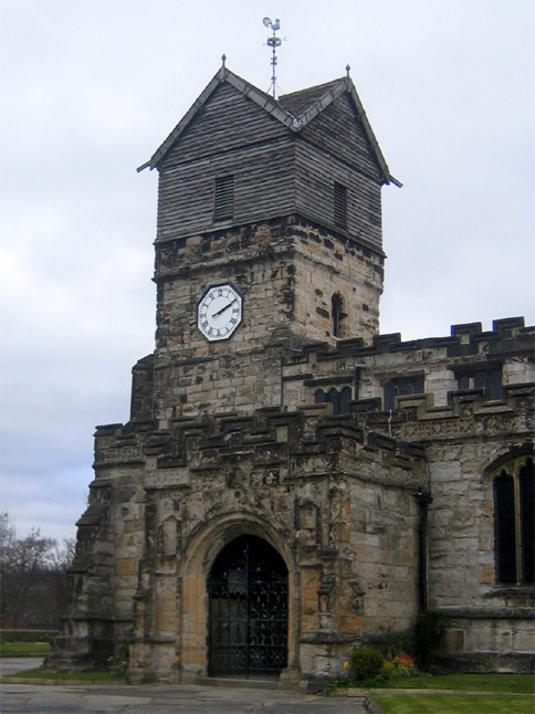 West tower and south porch of St Leonard's parish church, Middleton, Greater Manchester, seen from the southeast